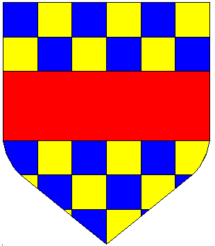 arms of George Clifford, 3rd Earl of Cumberland